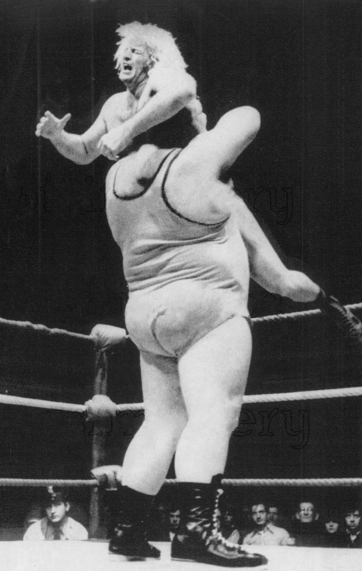 1973 Wrestlers Chris Taylor & Rene Goulet of France in Minneapolis Press Photo